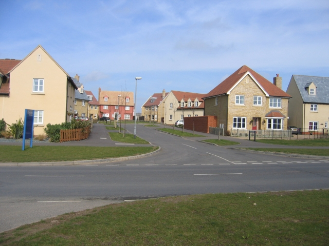 Lower Cambourne scene, Cambs. View of homes where Quidditch Lane joins School Lane in the new settlement of Cambourne.